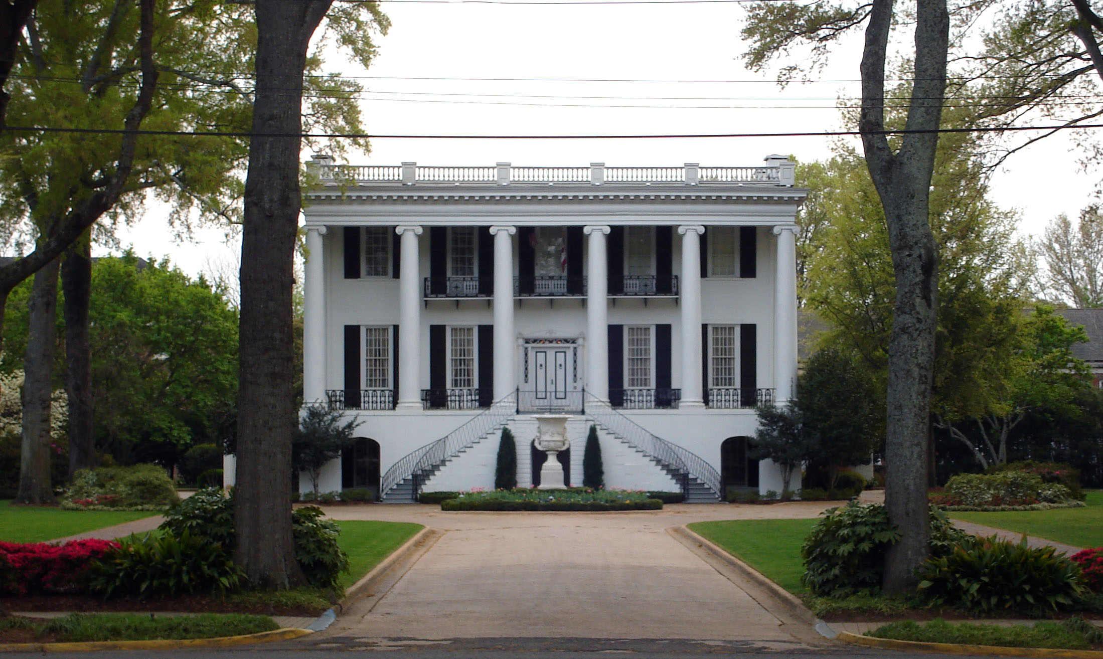 The President's Mansion at the University of Alabama in Tuscaloosa, Alabama. Designed by Michael Barry and completed in 1841.